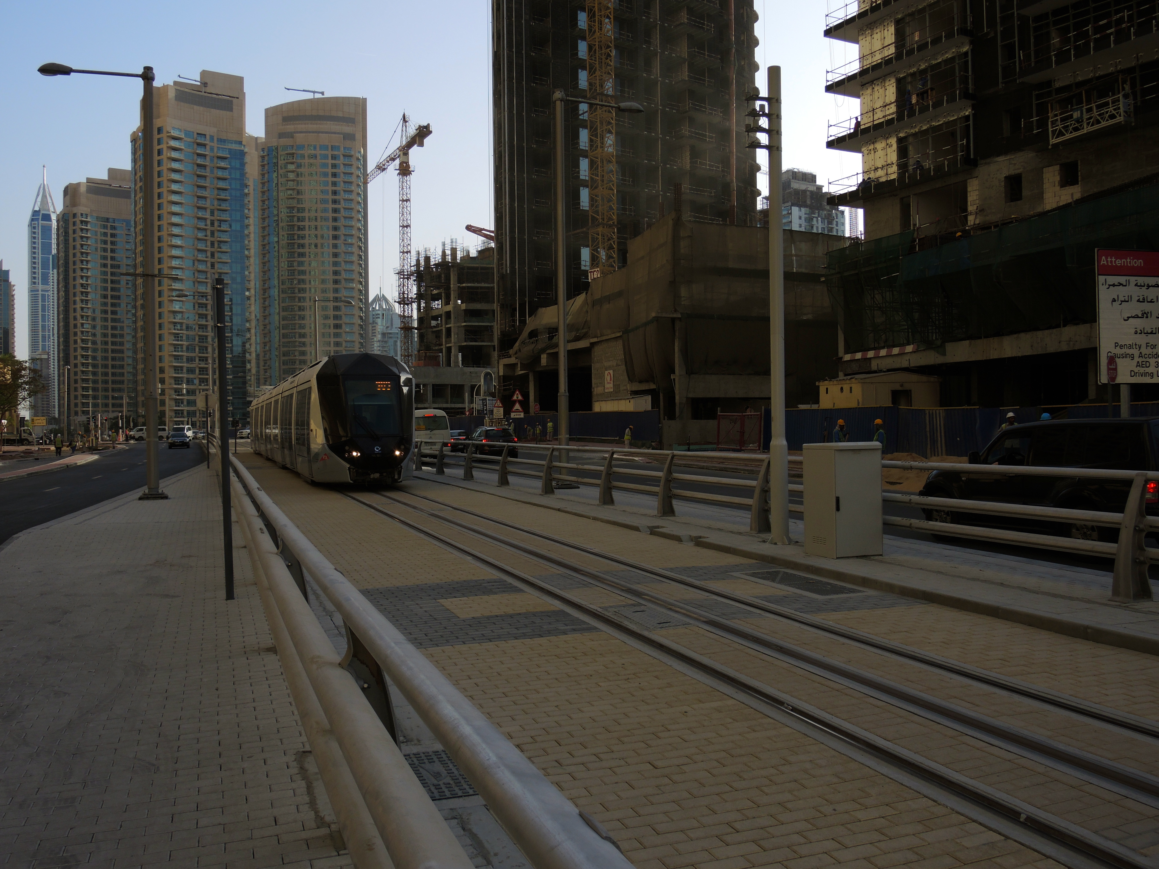 Light rail tram on a test run at Dubai Marina